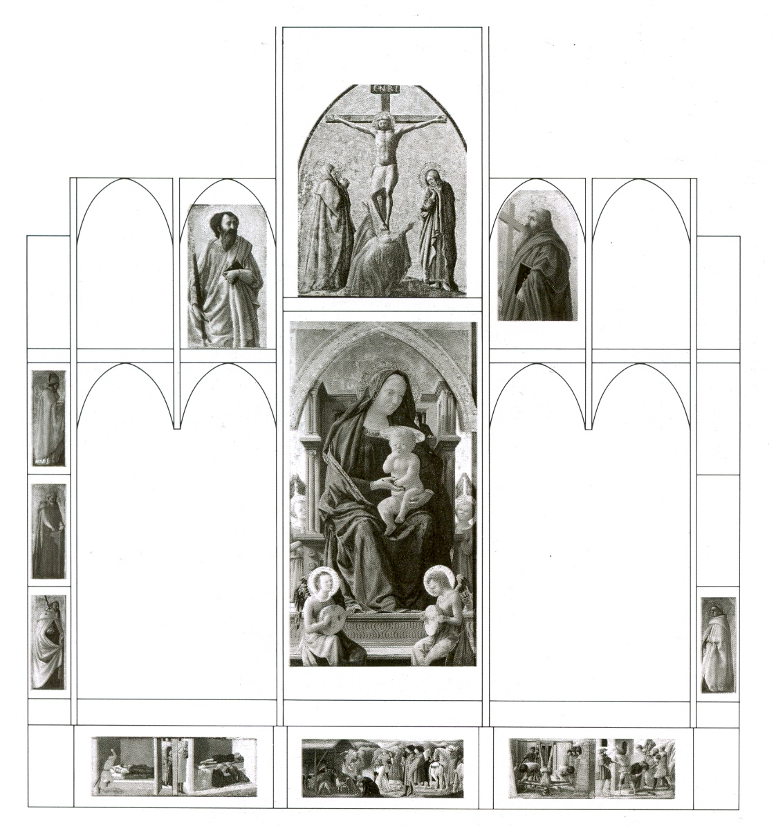 Reconstruction_of_fragmrnts_of_Masaccio's_Pisan_altarpiece_(after_C._Gardner_von_Teuffel).